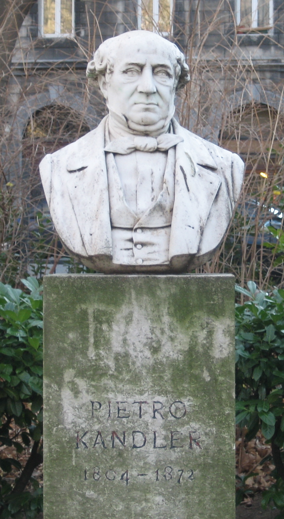 Bust of the Austro-Hungarian historian Pietro Kandler (1804-1872) in the public garden Muzio de Tommasini in Triest.